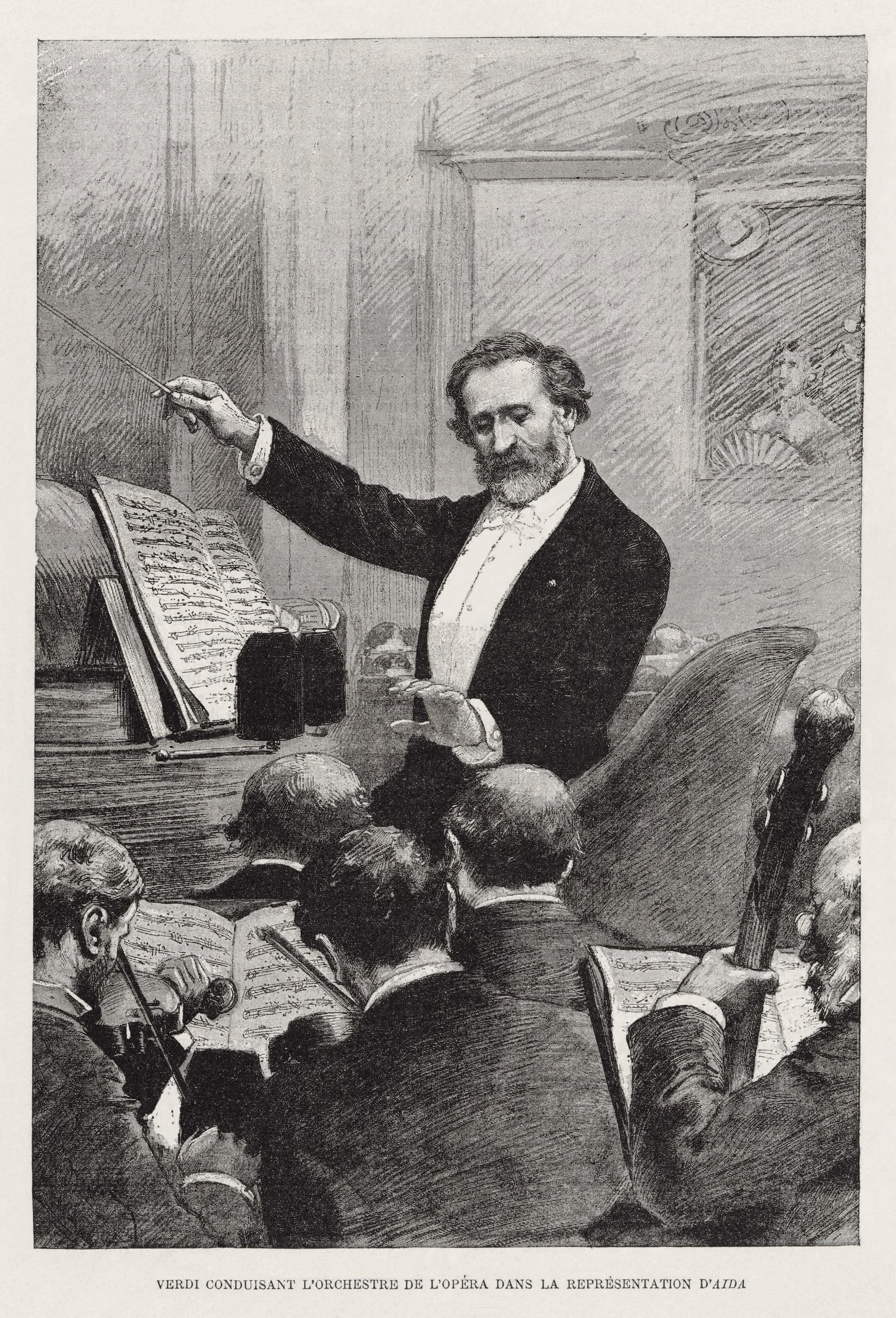 Giuseppe Verdi conducting the Paris Opera premiere of Aida (sung in French) at the Palais Garnier on 22 March 1880. According to a handwritten notation at the top of the item, it was published on 3 November 1881 in La Musique populaire. This was also published in the 3 Avril [April] 1880 edition of Le Monde Illustré, whose caption makes it clear that this was at the first production at the Paris Opera. See [1]